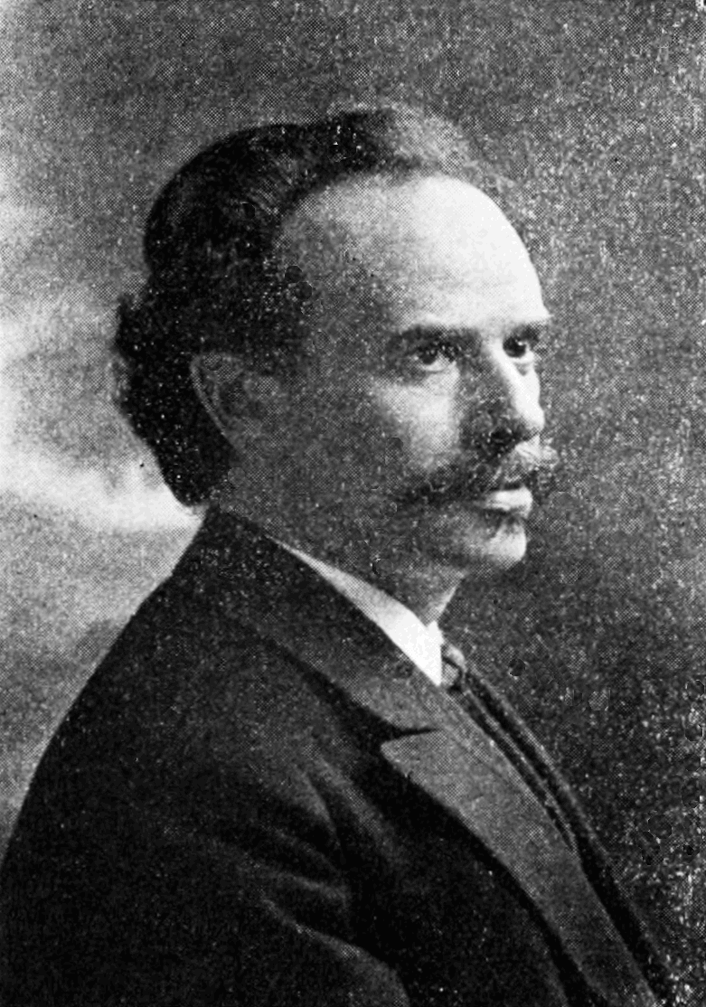 Franz Boas